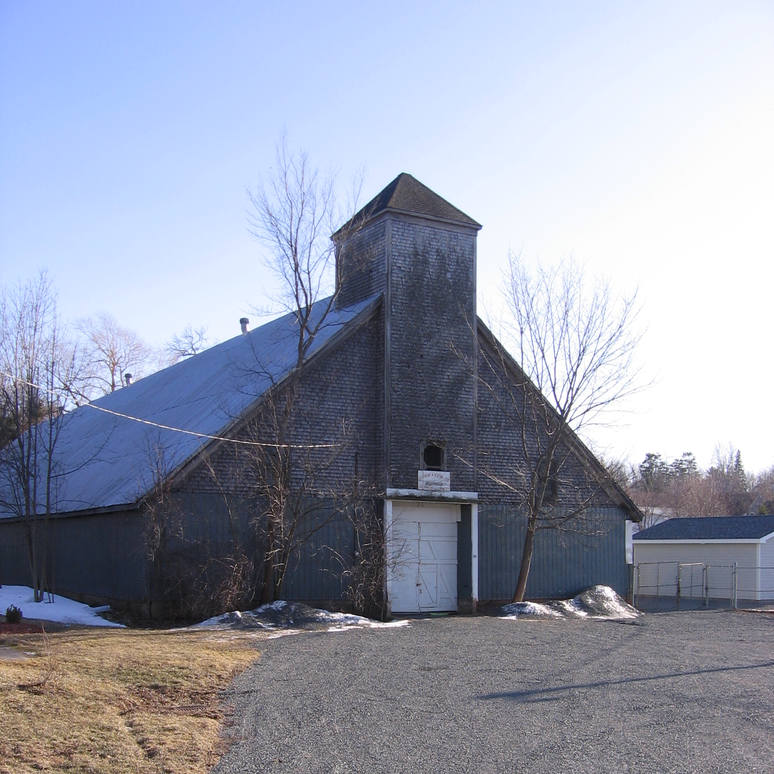 Photo of Stannus Street Rink, Windsor NS